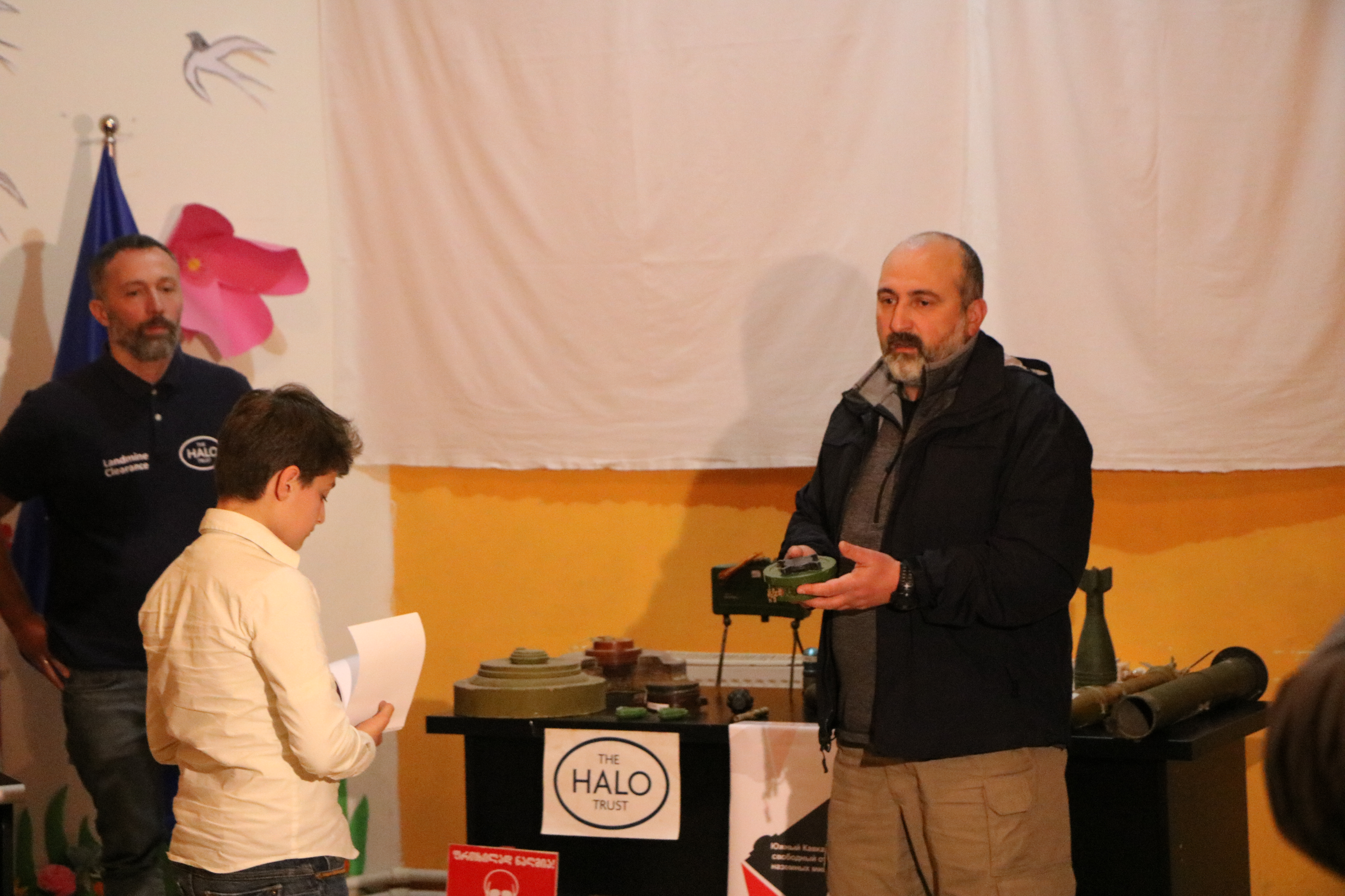 Halo Trust staff members explaining the danger of mines to school students in Tbilisi during the "Landsmine Free Caucasus" campaign organized by the Europe-Georgia Institute. Oleg Gochashvili an expert from the Agency for Humanitarian Demining of the Georgian government explained the risks of unexploded ordnance to young people at a school activity in Tbilisi on 5 April 2019